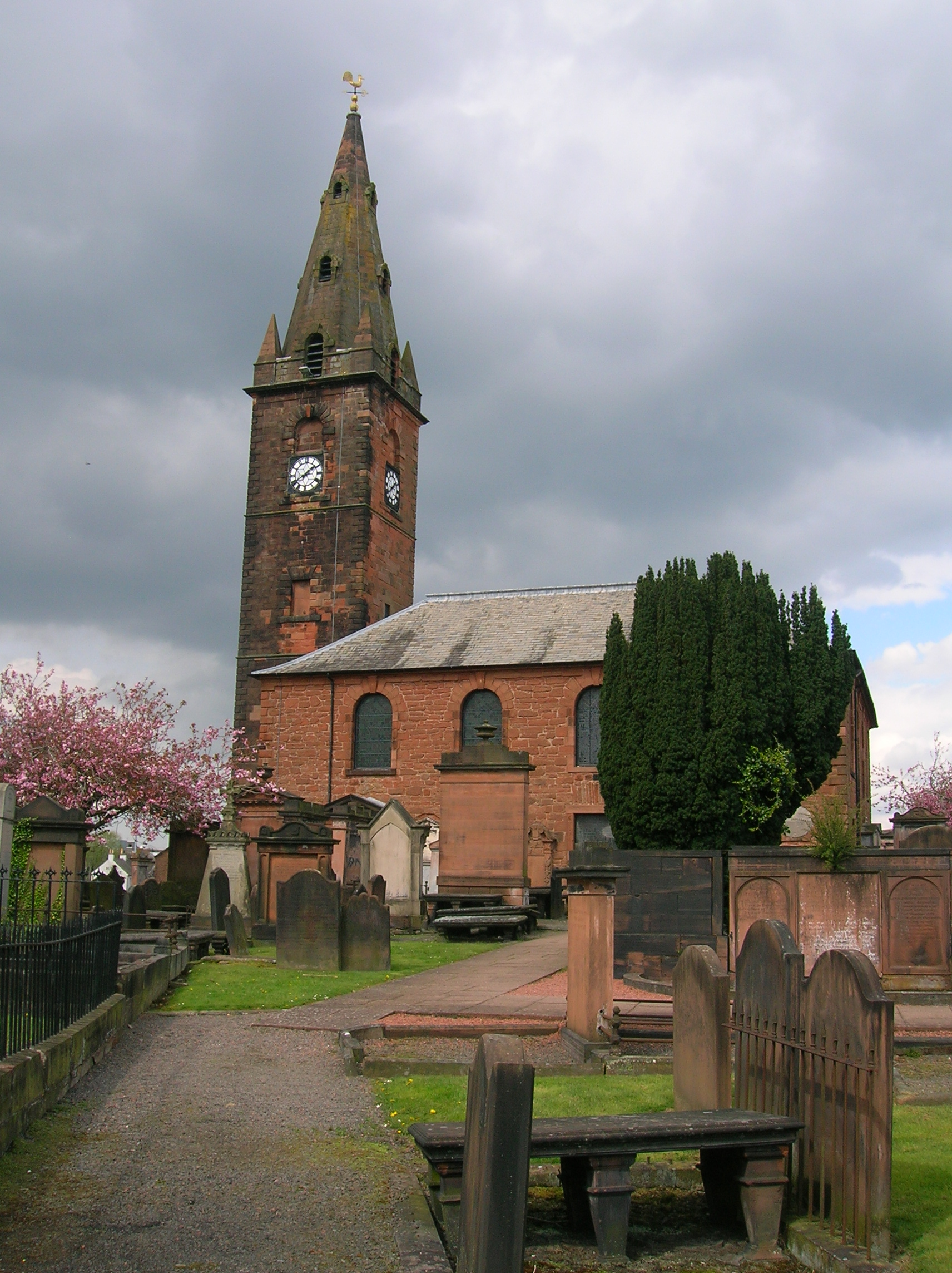 St Michael's Church, Dumfries, Scotland.